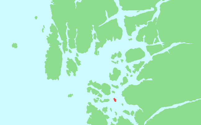 Locator map of Sør-Hidle, Rogaland, Norway